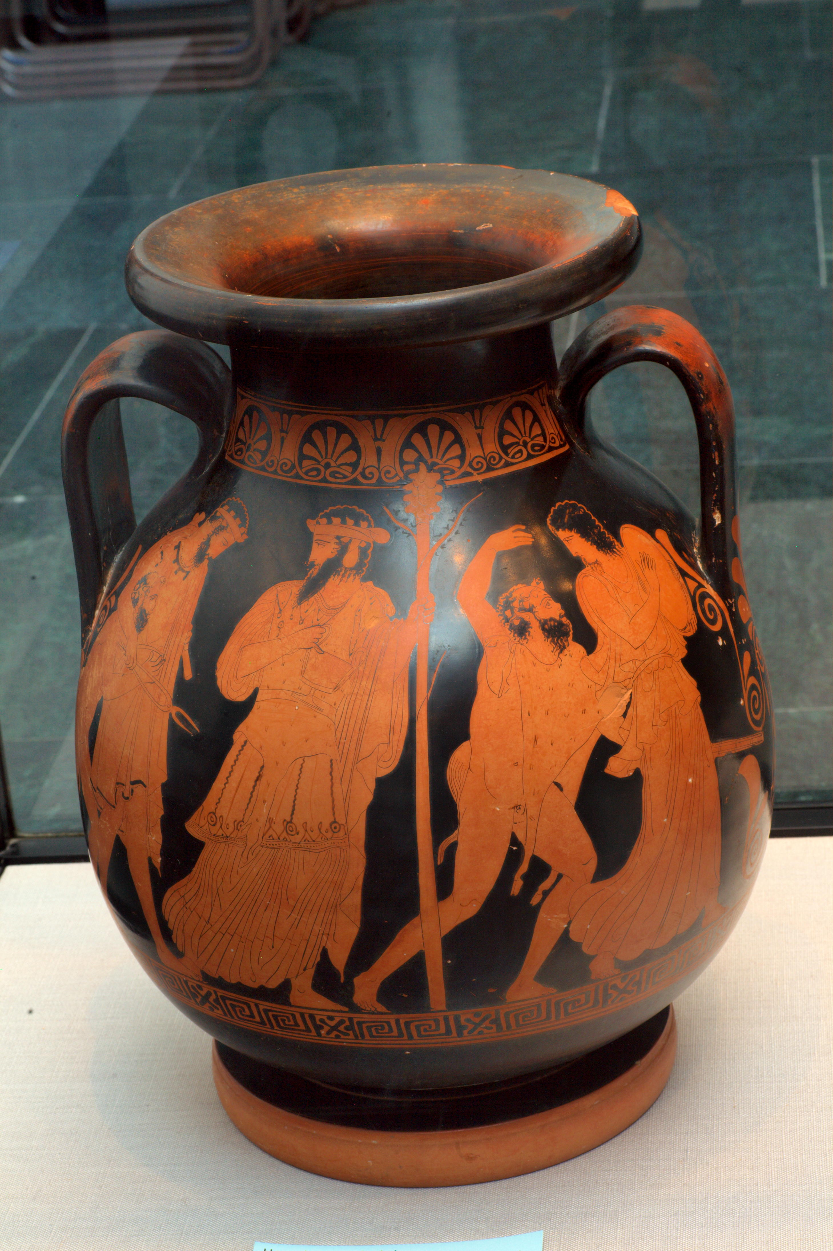 Return of Hephaestus on Olymp, with Dionysos and his thiasos. Side A of an Attic red-figure pelike, 440–430 BC.